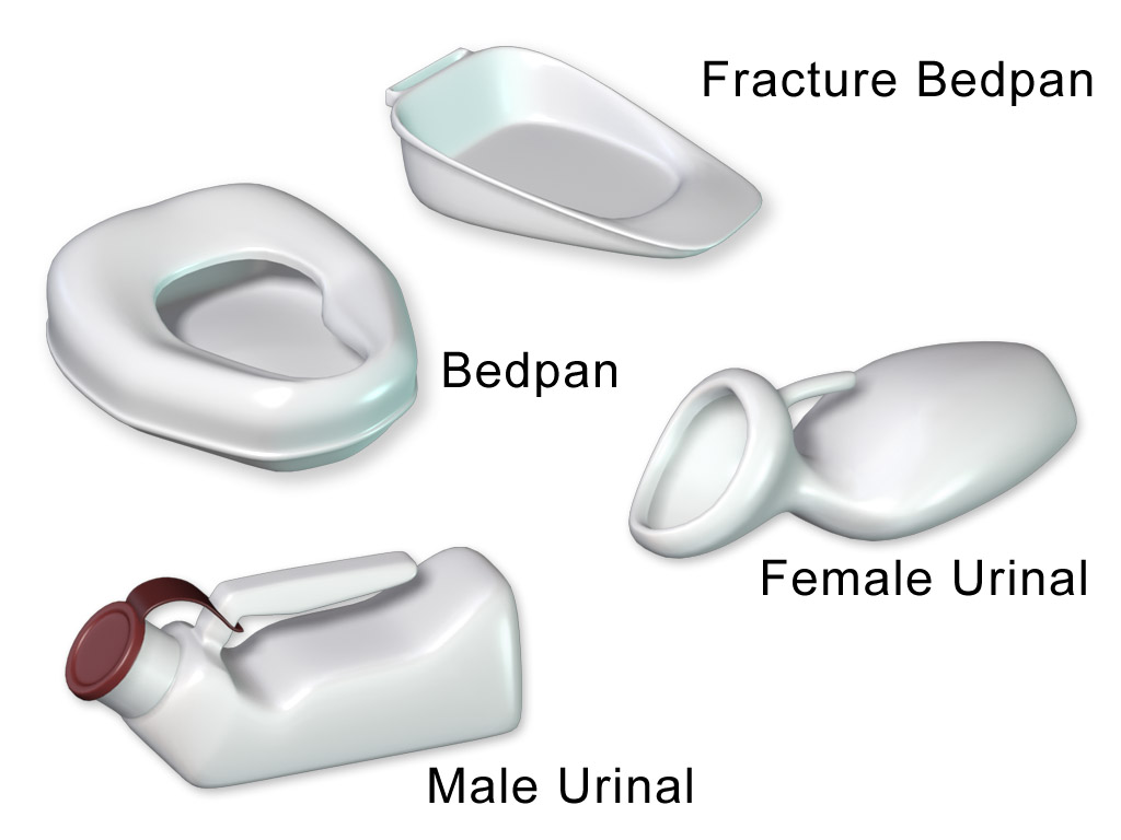 An illustration depicting bedpans and urinals.